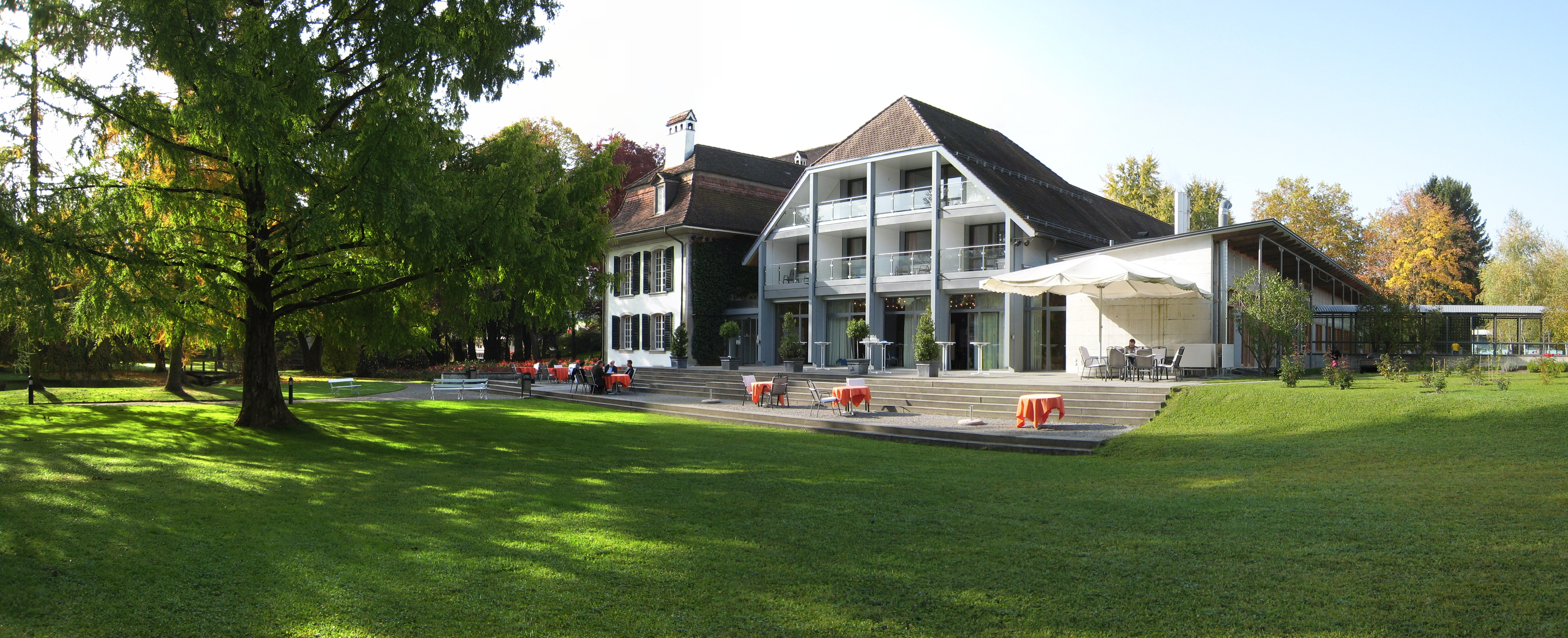 Parkhotel Schloss Hünigen, Konolfingen, Switzerland.